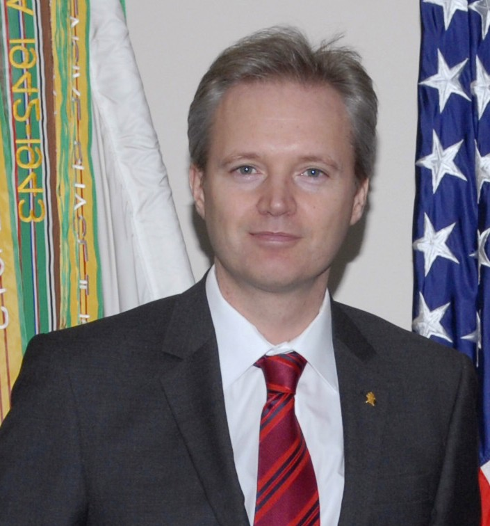 Swedish Minister of Defense Sten Tolgfors cropped from photo with Secretary of Defense Robert M. Gates, prior to a closed door luncheon in the Pentagon April 17, 2008. The leader will discuss defense issues of mutual interest.